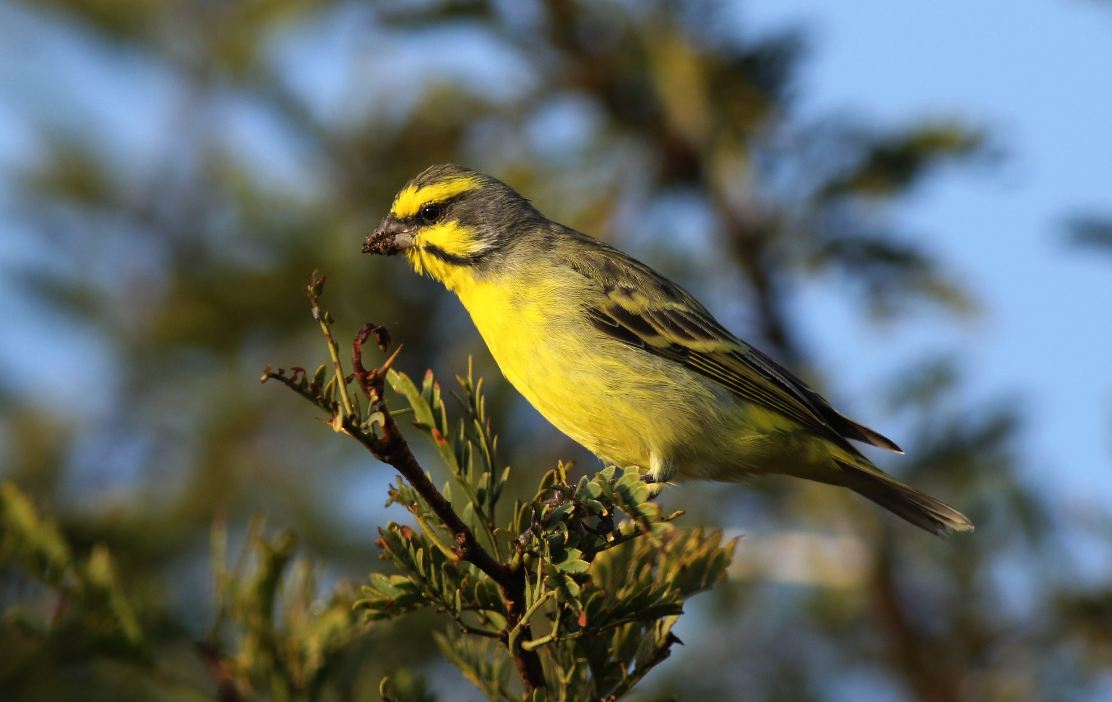 Yellow-fronted canary, Crithagra mozambicus, at Pilanesberg National Park, Northwest Province, South Africa